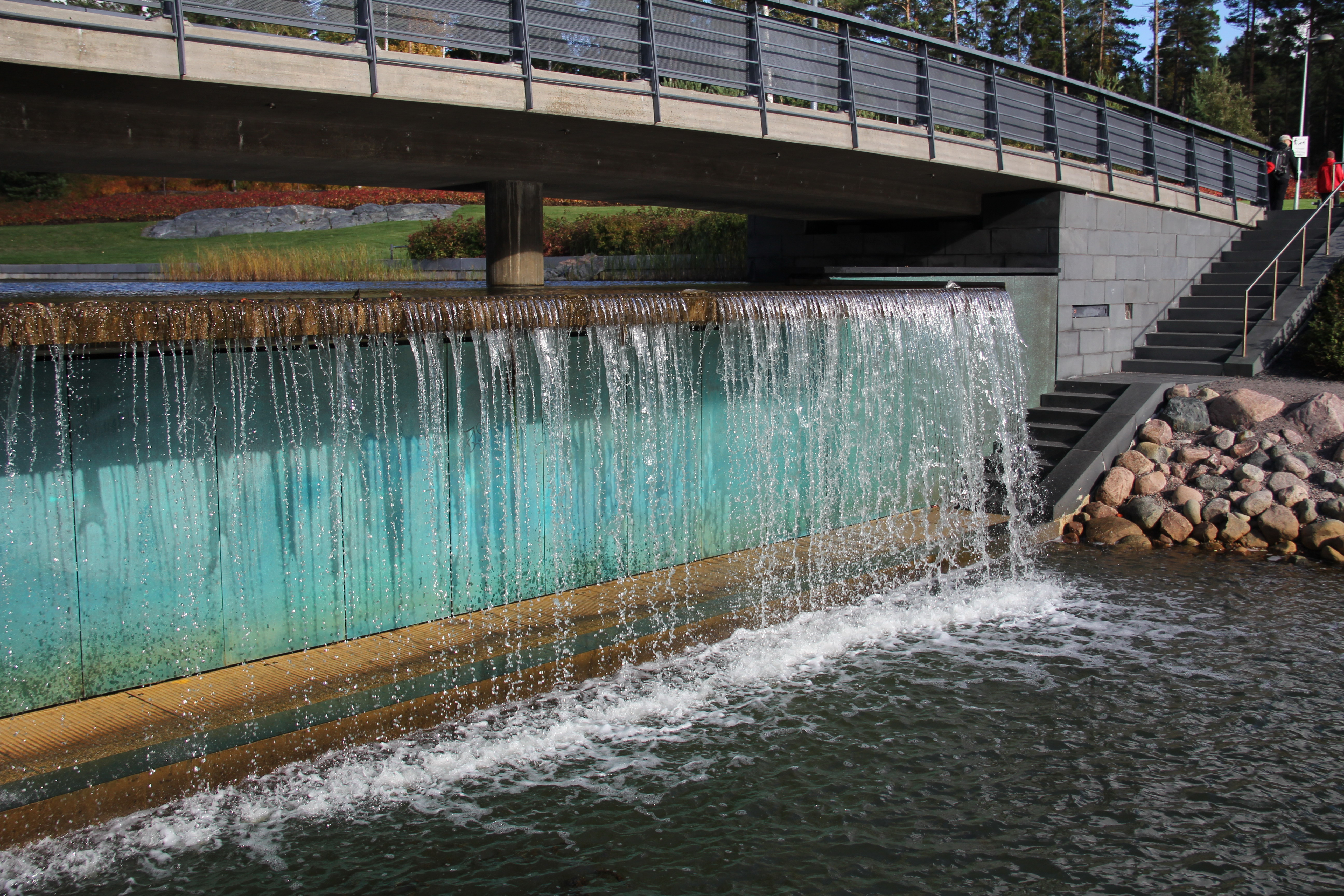 Uutela Canal, Aurinkolahti, Vuosaari, Helsinki, Finland. Sumujen silta bridge. A passage begind the water.